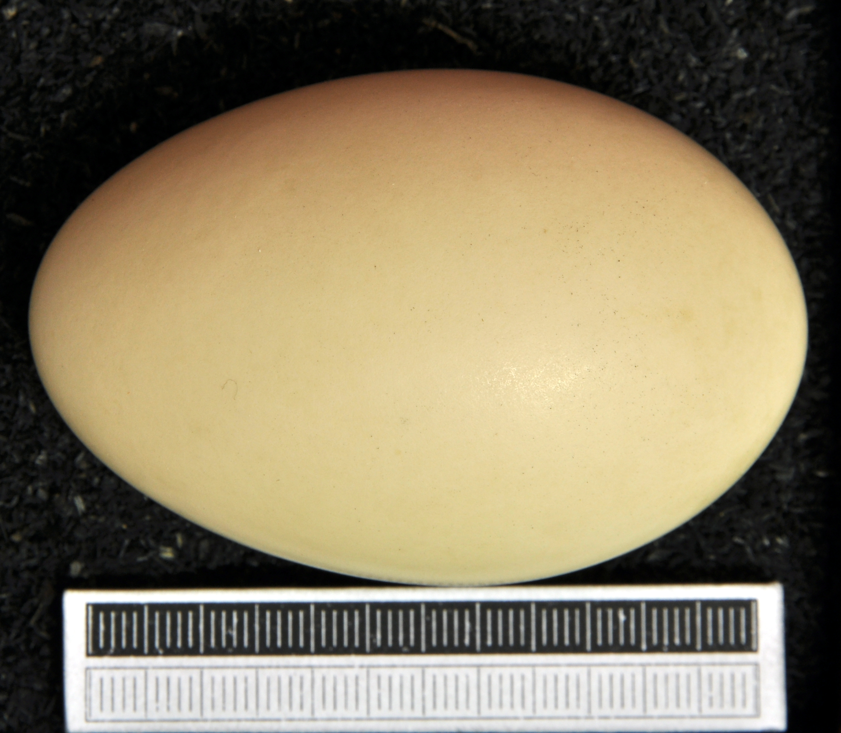 Red-breasted merganser Mergus serrator , egg, Coll. Museum Wiesbaden